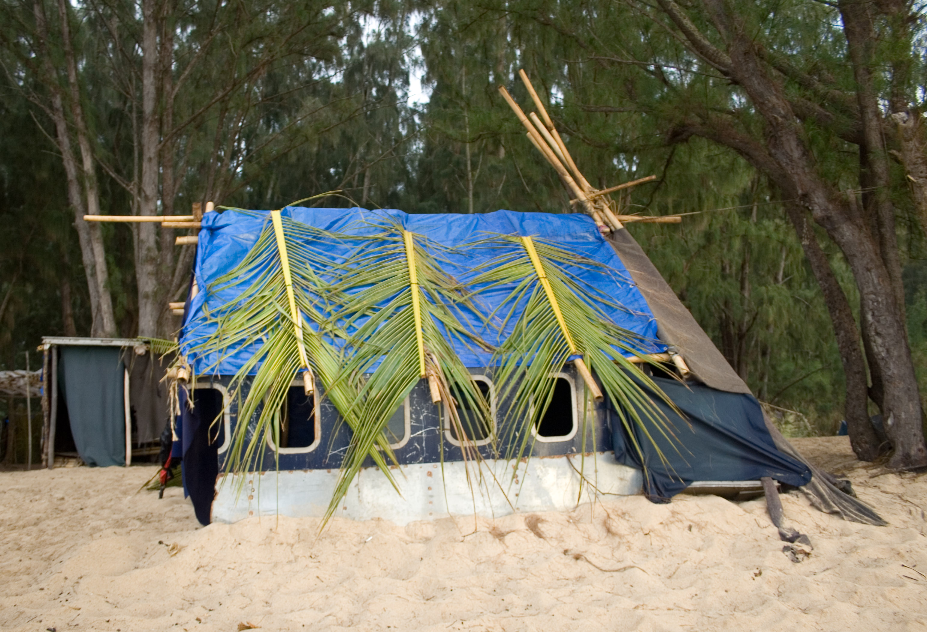 Losties camp, a 'hut' made of a part from the plane in LOST